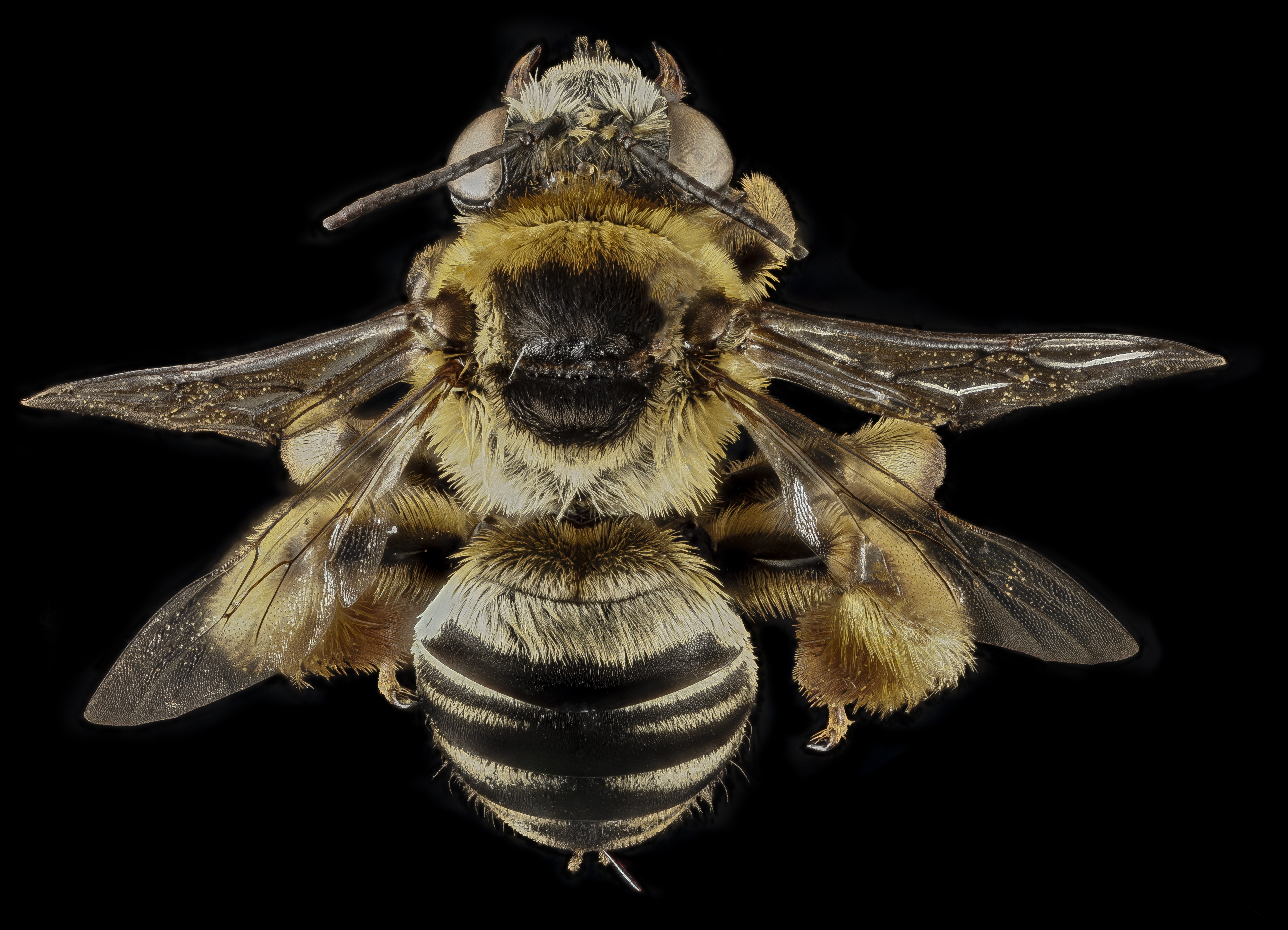 One of the southern Svastra species. Big Bee, uncommon and probably restricted to areas of relatively intact native flora, which are getting to be harder and harder to find. The specimen is from the Flatwoods of Georgia in an area maintained as longleaf pine through burning and careful forestry techniques.Collected by Sabrie Breland And photographed by Brooke Alexander. 15:40, 3 February 2015 (UTC)15:40, 3 February 2015 (UTC) 0 15:40, 3 February 2015 (UTC)15:40, 3 February 2015 (UTC) All photographs are public domain, feel free to download and use as you wish. Photography Information: Canon Mark II 5D, Zerene Stacker, Stackshot Sled, 65mm Canon MP-E 1-5X macro lens, Twin Macro Flash in Styrofoam Cooler, F5.0, ISO 100, Shutter Speed 200 The grass so little has to do, A sphere of simple green, With only butterflies to brood, And bees to entertain, - Emily Dickinson Contact information: Sam Droege 301 497 5840